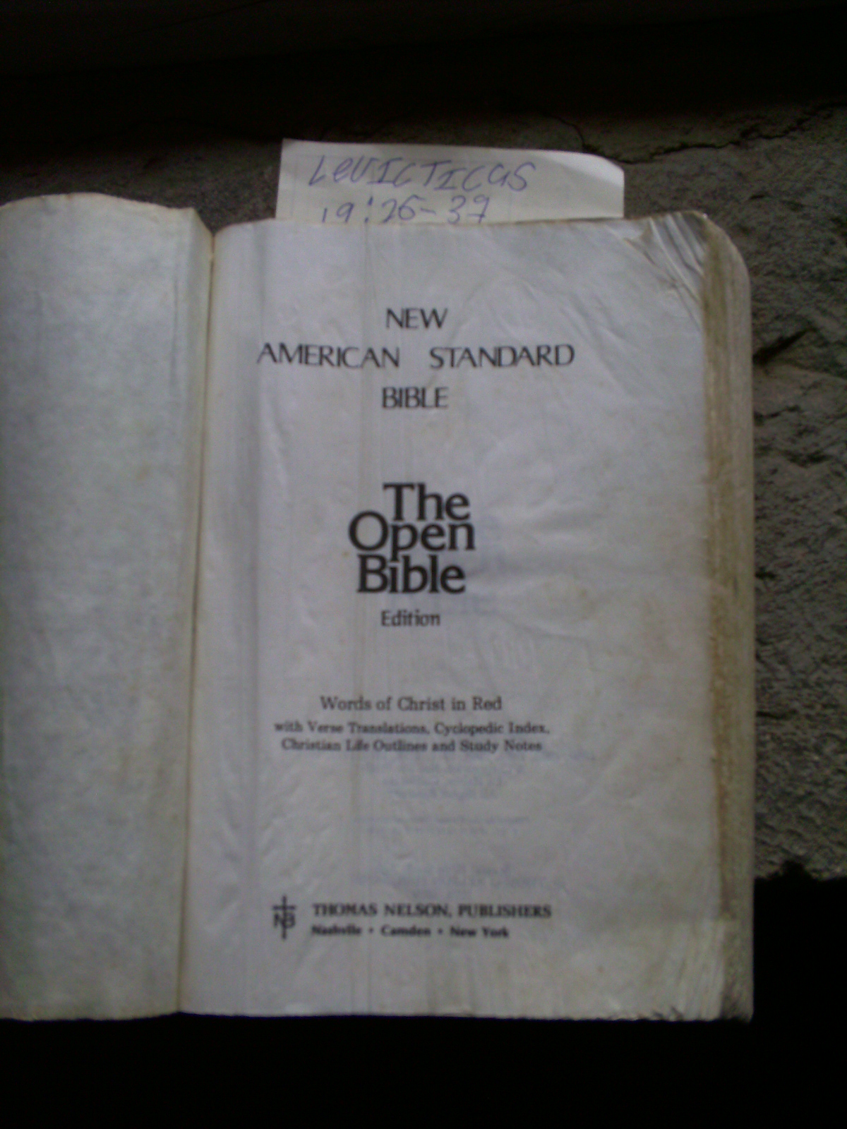 The Open Edition of the New American Standard Bible.